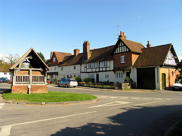 Yattendon, Berkshire: the centre of the village